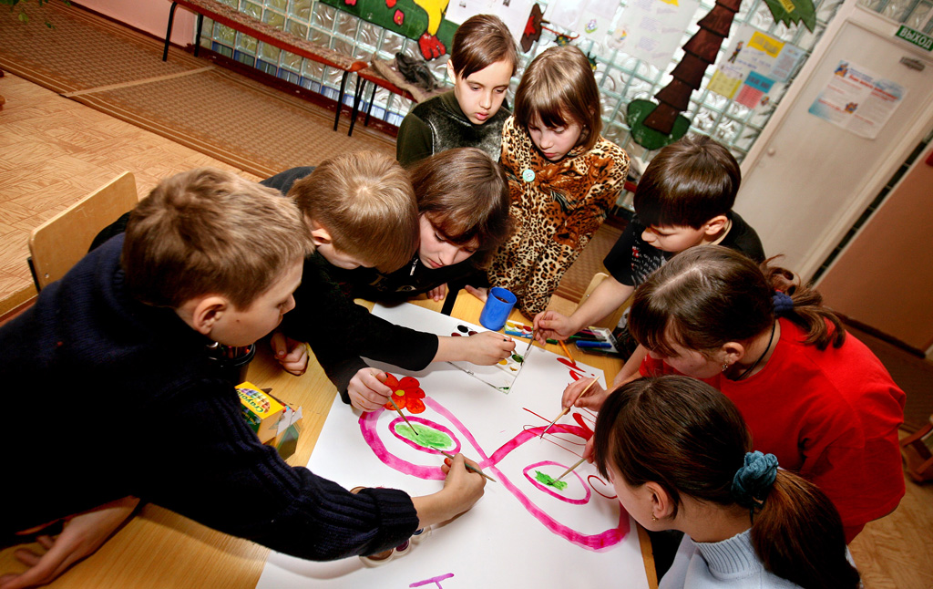 “Preparation for March 8th holiday at the Social Rehabilitation Center for Minors "Sail of Hope" in Vladivostok”. Children getting ready for March 8th holiday at the Social Rehabilitation Center for Minors "Sail of Hope" in Vladivostok.